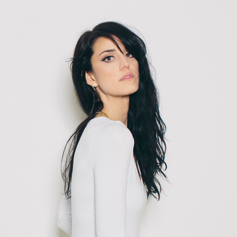 Picture of Young Summer taken by Catie Laffoon in May of 2016